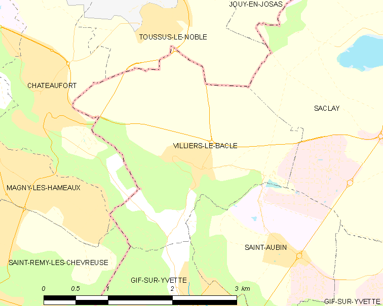 Map of French municipality Villiers-le-Bâcle